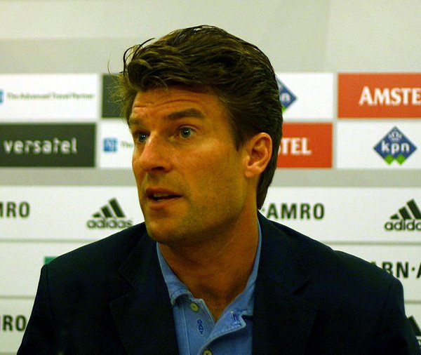 Michael Laudrup at a press conference as manger of Brøndby IF in 2006.